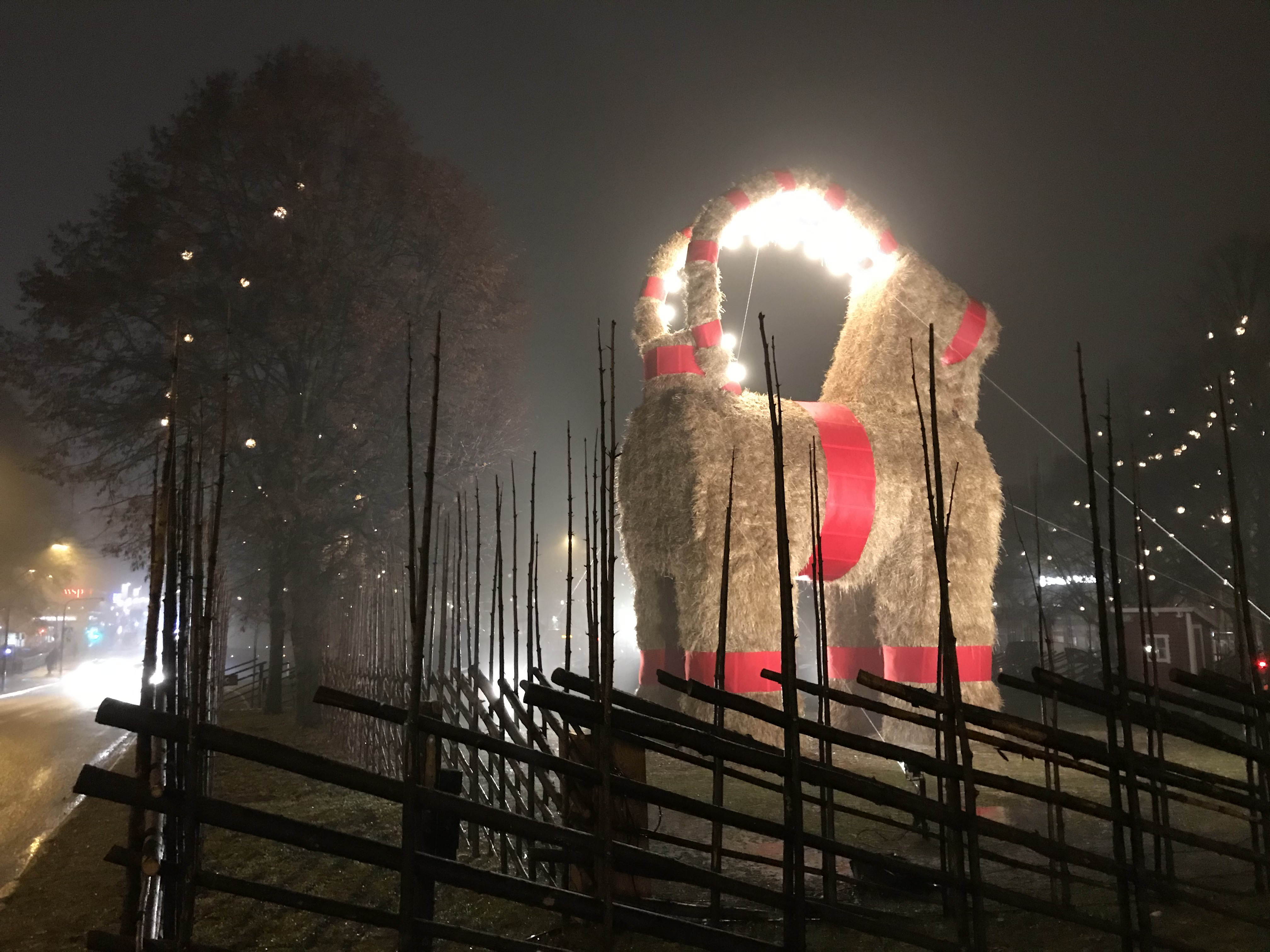 Gävle goat is since 2017 protected by a double fence. December 21, 2019.